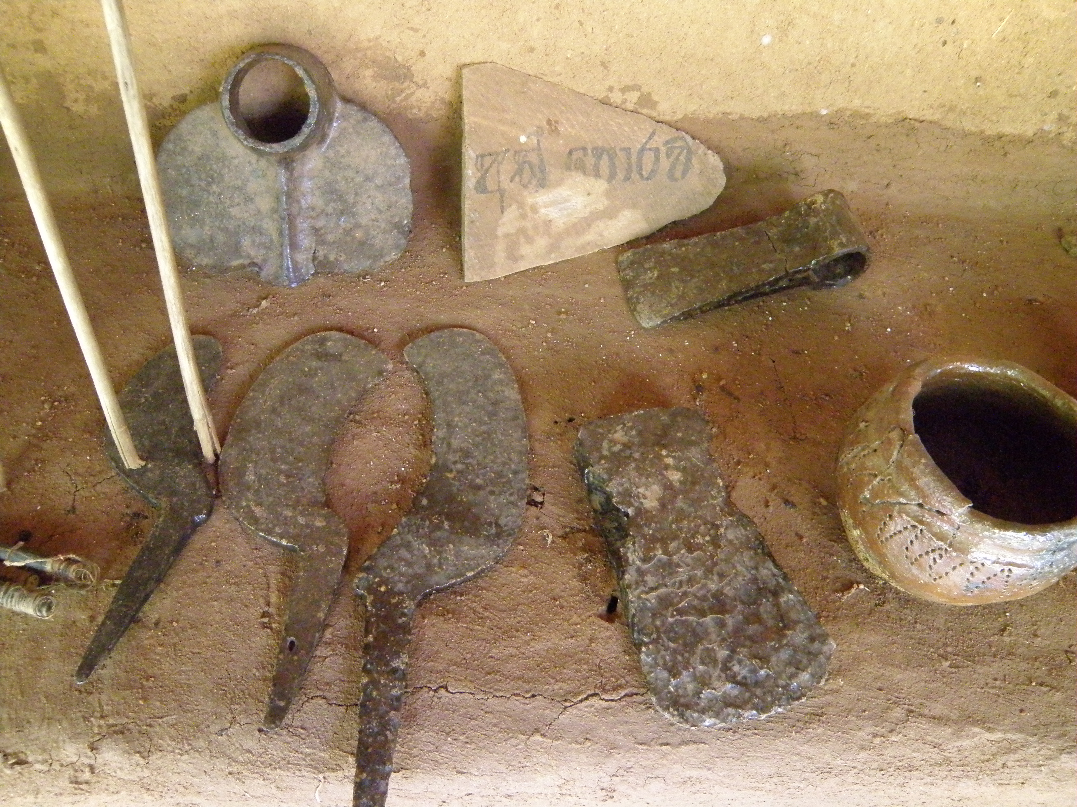 Vedda traditional stone tools (Vedda Heritage Center near Dambana, Sri Lanka)